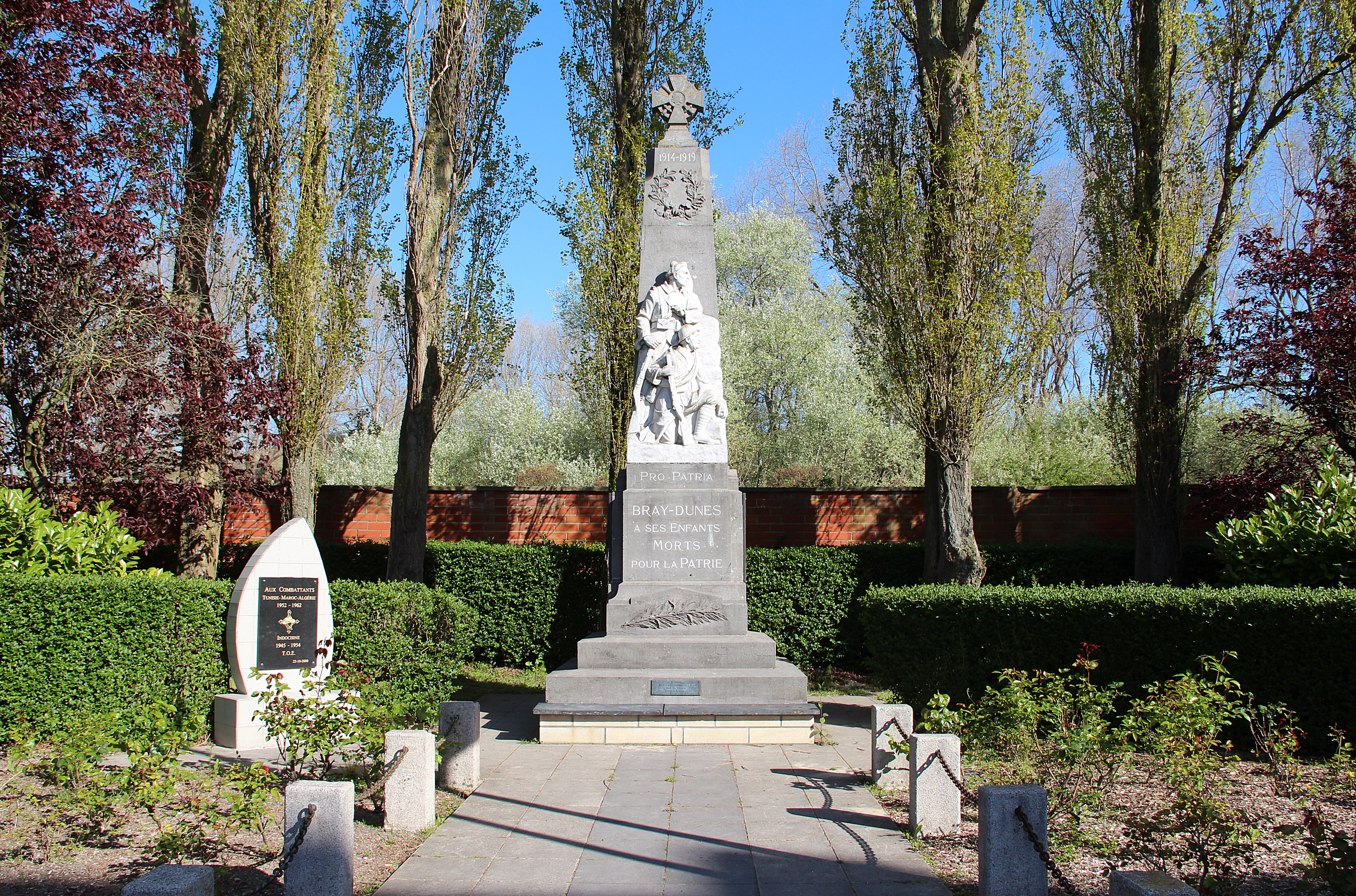 The monument to the dead of the two world conflicts, as well as that to the combatants of the wars, of Algeria, Tunisia and Indochina in Bray-Dunes (department of Nord, France).